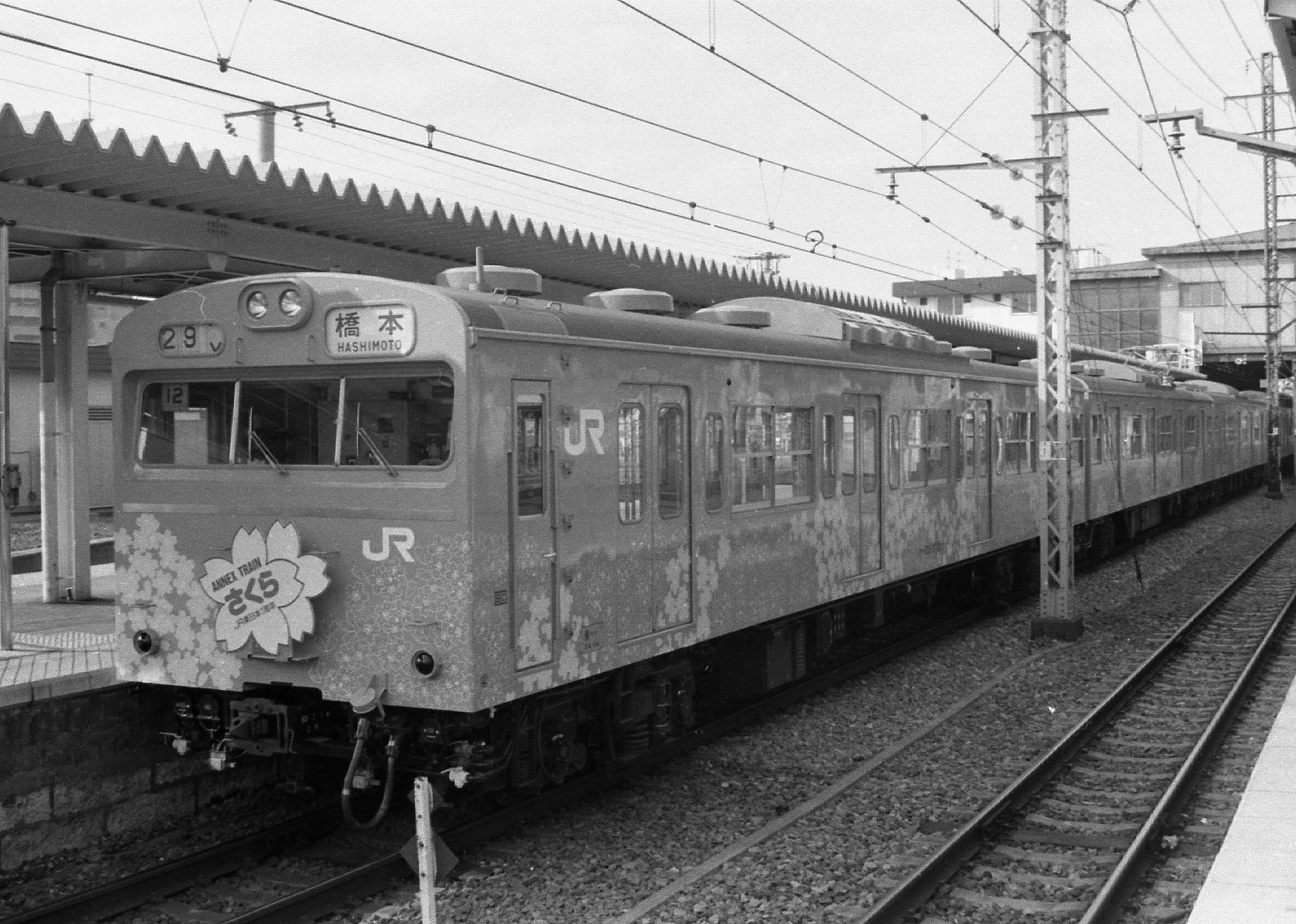 A JR East Yokohama Line 103 series EMU at Higashi-Kanagawa Station decorated as a Sakura Train to mark the first anniversary of the establishment of JR East